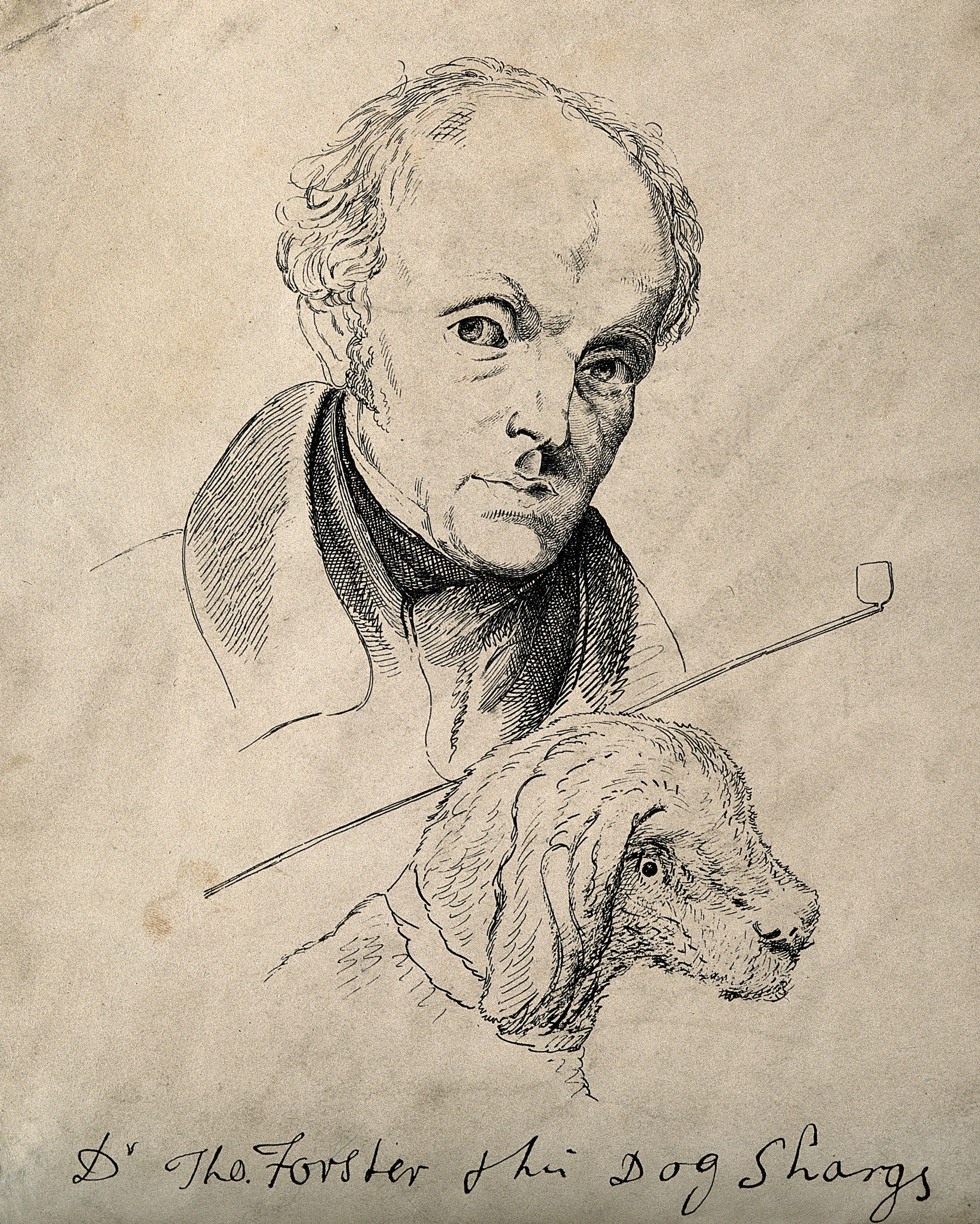 Thomas Forster. Etching by Miss Turner. Identified here as Thomas Ignatius Maria Forster, vegetarianism activist. Iconographic Collections Keywords: portrait prints; etchings; Thomas Forster